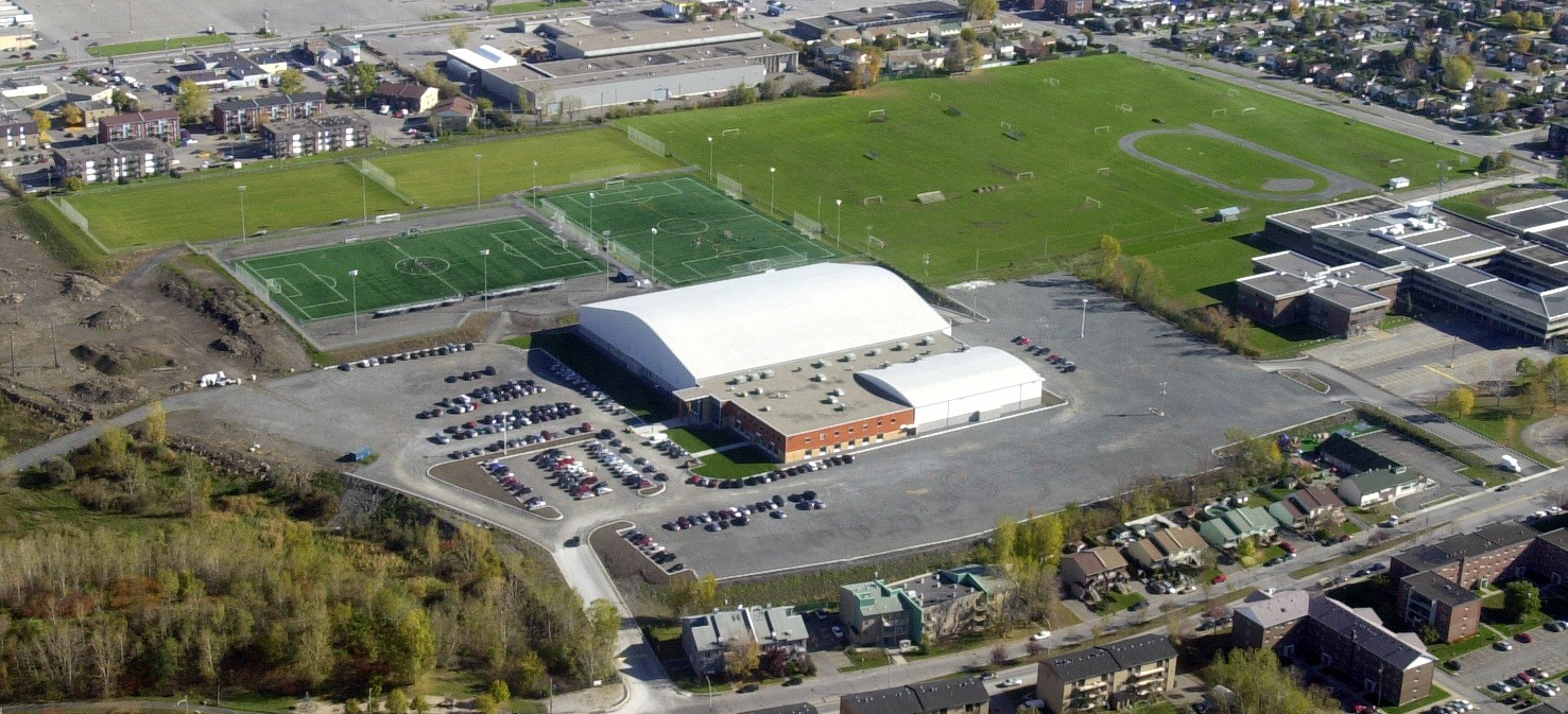 Aerial photo of Centre sportif Bois-de-Boulogne at Laval (Québec, Canada) Photo aérienne du Centre sportif Bois-de-Boulogne à Laval au Québec, Canada